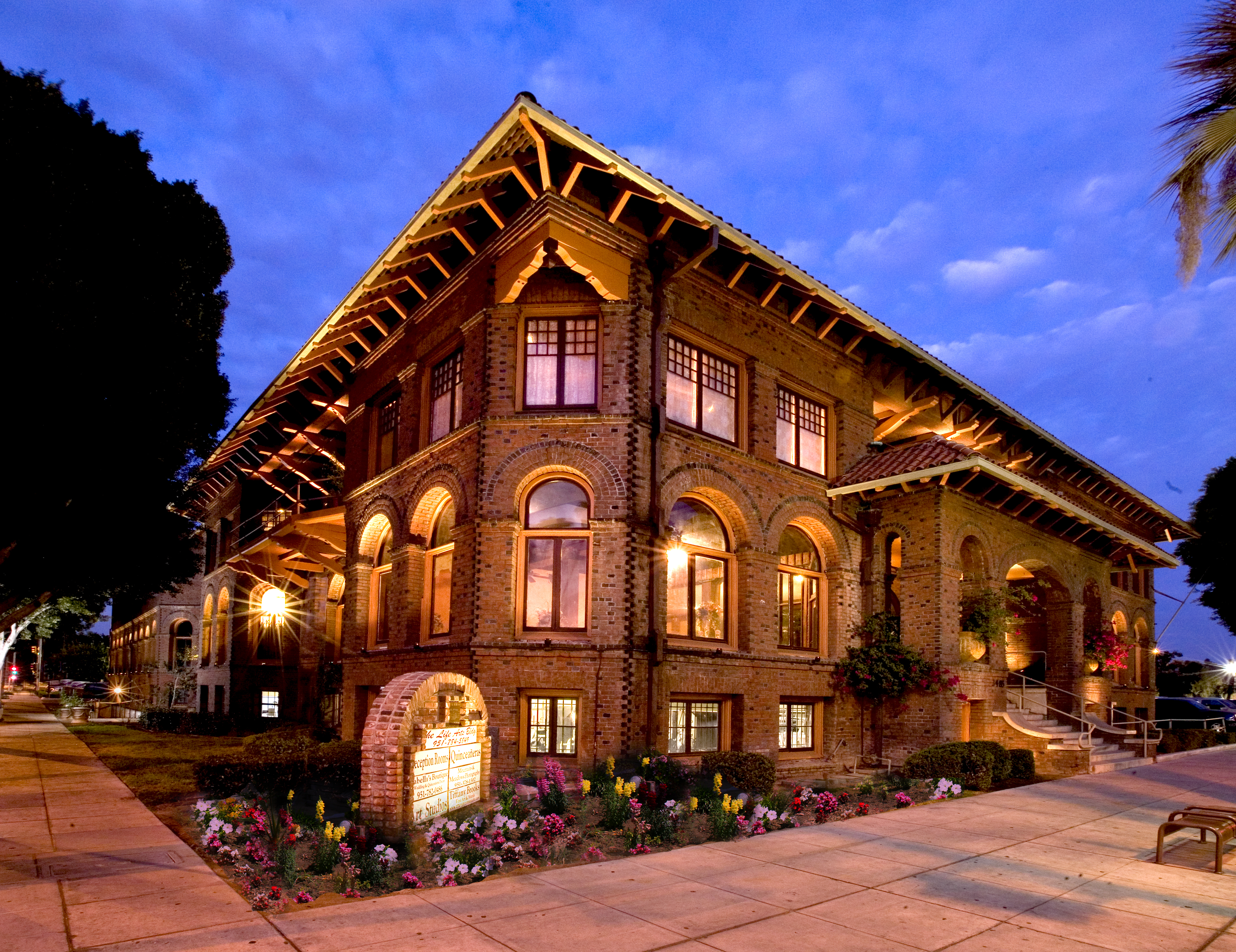 Photo of the Historic Y.M.C.A. building, Riverside, California Photographed by Gilbert Vela, AKA Dos Velas Images, Mountains and Meadows Photography.